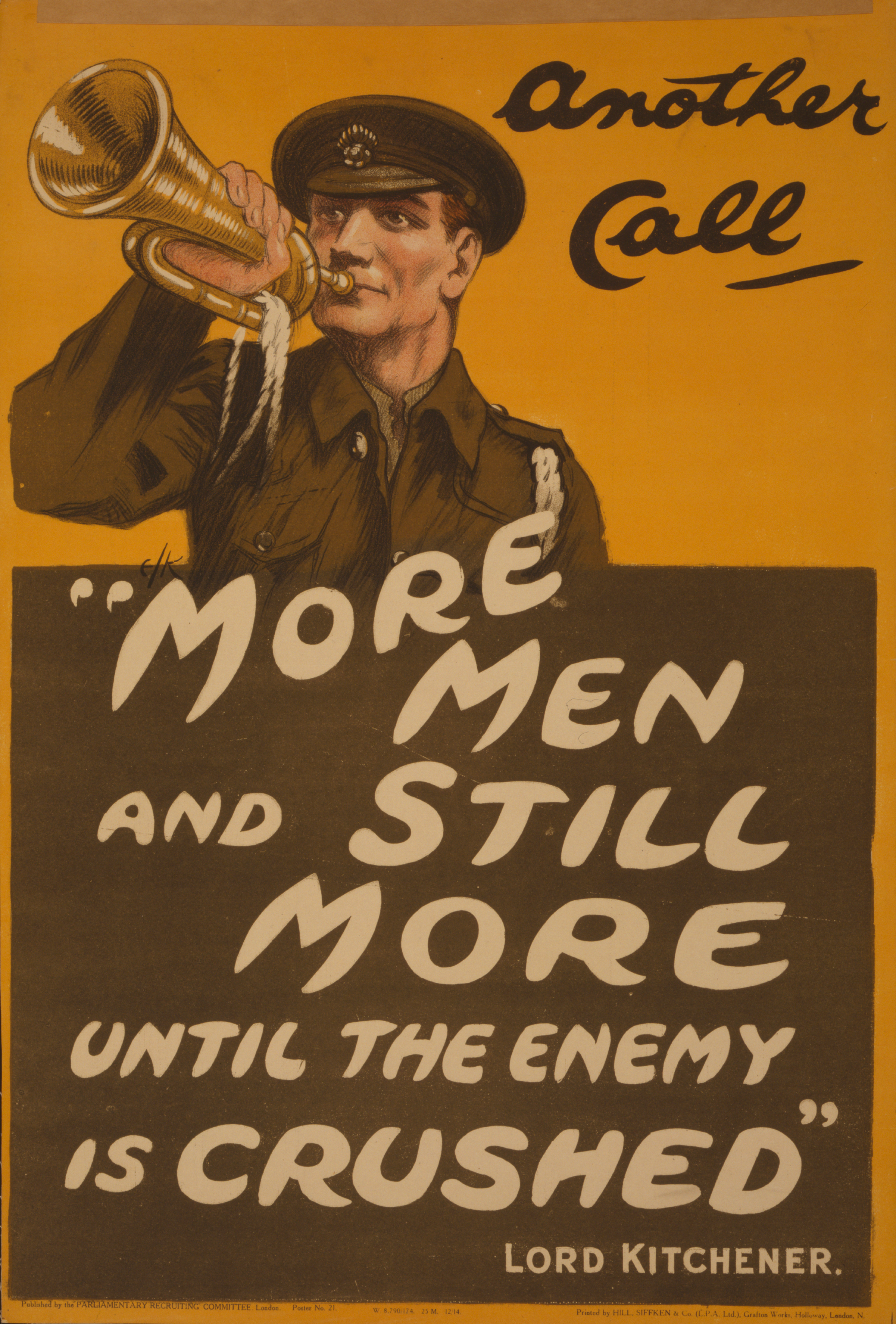 Title: Another call "More men and still more until the enemy is crushed" Lord Kitchener Abstract: Poster showing a soldier blowing a bugle. Physical description: 1 print (poster) : lithograph, color ; 73 x 49 cm. Notes: W. 8.790/174. 25M. 12/14.; Poster no. 21.; Title from item.; Elk ; Printed by Hill, Siffken & Co. (L.P.A. Ltd.), Grafton Works, Holloway, London, N.